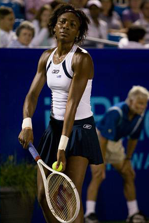 Version 8.25 from the Textbook OpenStax Anatomy and Physiology Published May 18, 2016 Version 8.25 from the Textbook OpenStax Anatomy and Physiology Published May 18, 2016